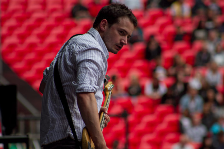 Tarrant Anderson, Bass Player for Frank Turner at Wembley Stadium in 2010